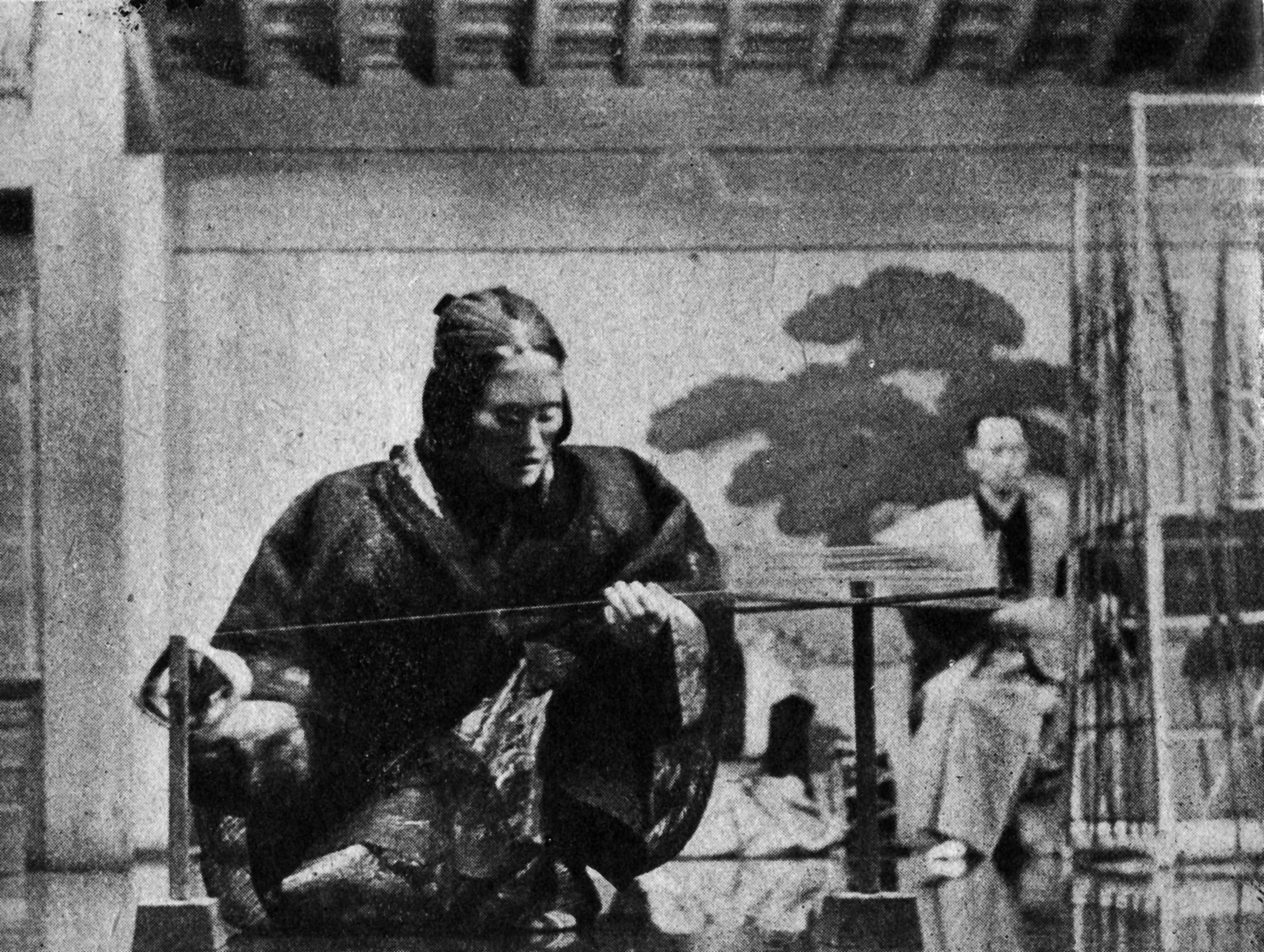 stage photo: Noh play Kurozuka(Adachigahara), UMEWAKA Rokuro(55th)